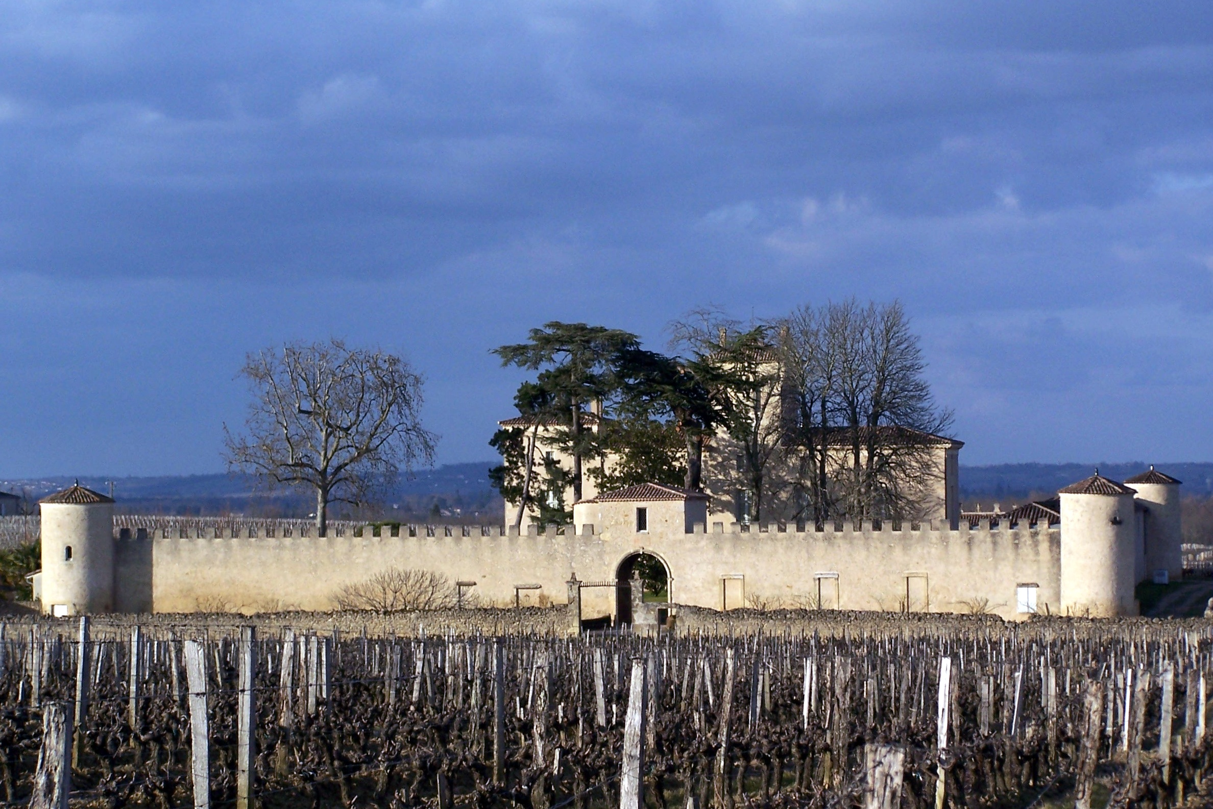 Castle Lafaurie-Peyraguey Sauternes (Gironde, France)